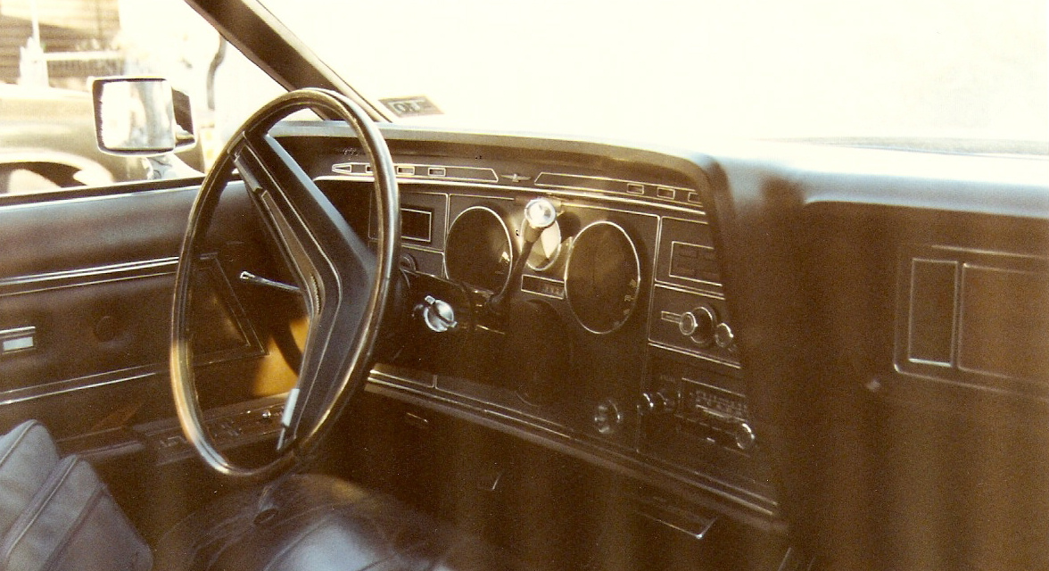 73tbird dashboard